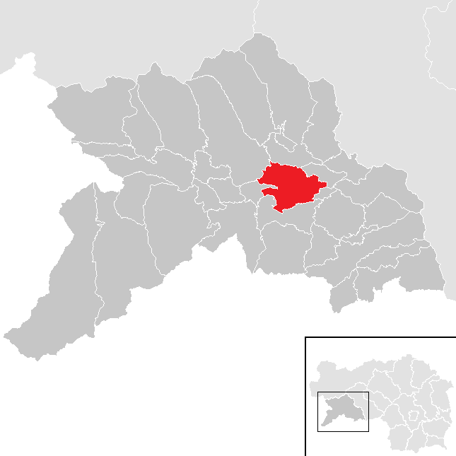 district Murau